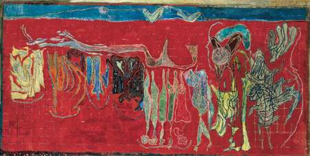 Painting by Ilka Gedő at a private collection